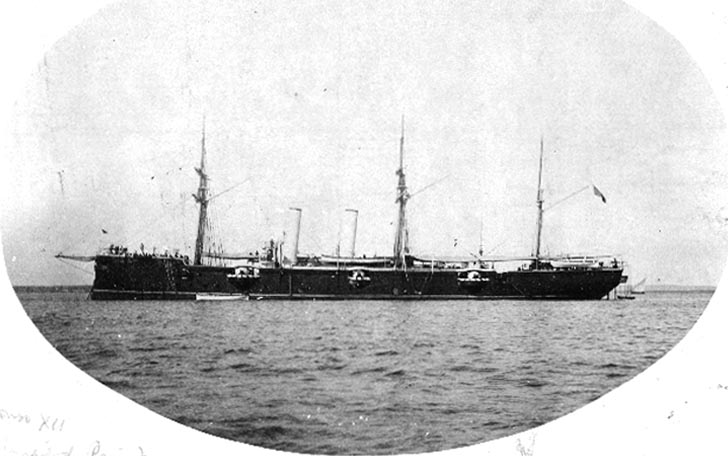 Spanish Navy cruiser Alfonso XII sometime in the late 1880s or 1890s